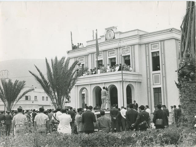 Un aspecto de la plaza de España durante la ceremonia de la cesión del territorio de Ifni a Marruecos, presidida por el gobernador de Ifni, general Vega Rodríguez, y por el representante del Gobierno marroquí.